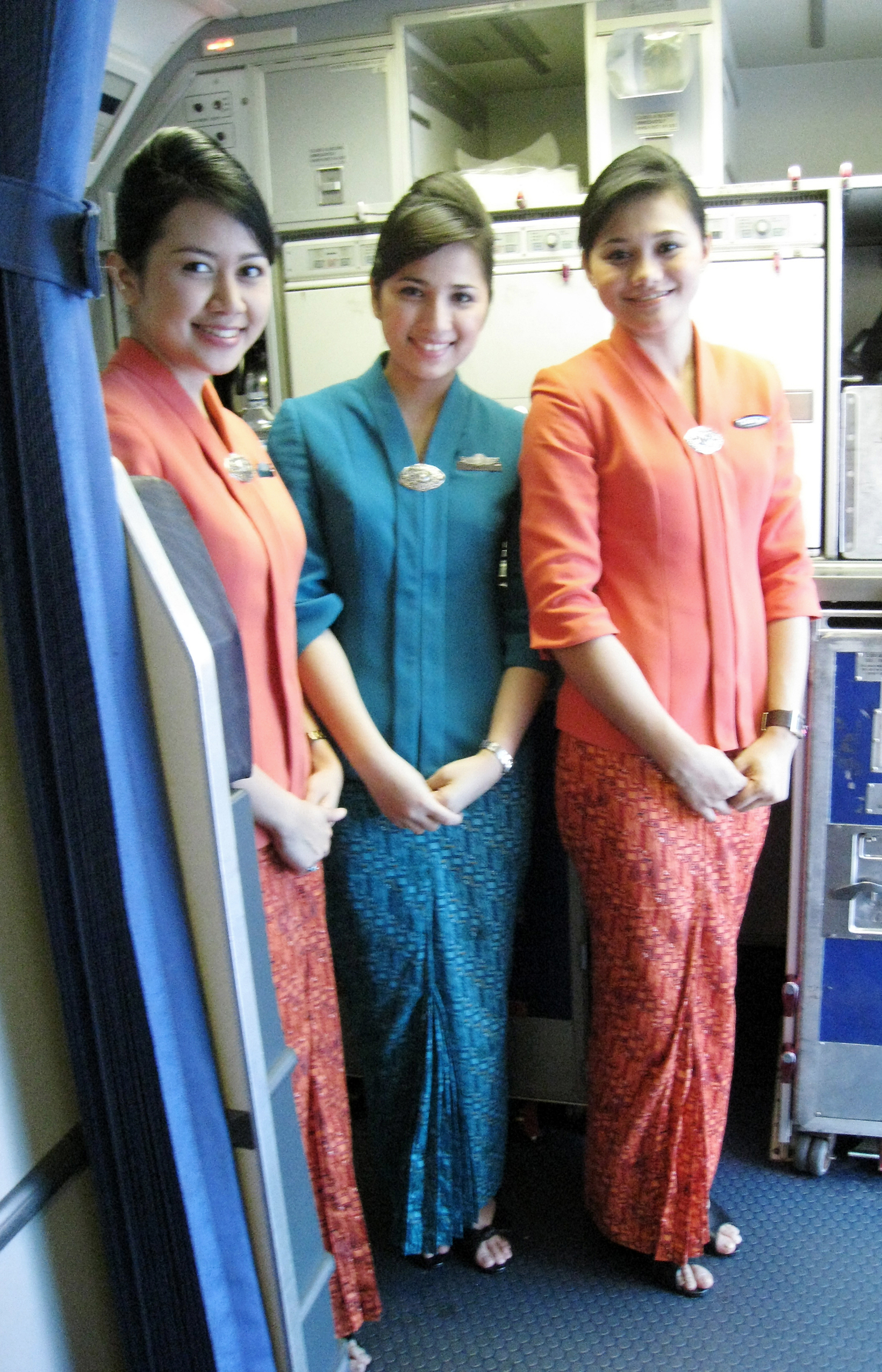 Garuda Indonesia flight attendants in their elegant new uniform (2010) featuring Kebaya and Batik, the national costume of Indonesia. The new in-flight costumes for Garuda Indonesia stewardesses are inspired by the traditional Kartini-styled kebaya for the upper torso with batik sarong. The kebaya made from fire-proof cotton-polyester fabrics, with batik sarongs in parang gondosuli motif, which also incorporate garuda's wing motif and small dots represent jasmine. The kebaya and batik are available in blue, turquoise and orange color scheme.